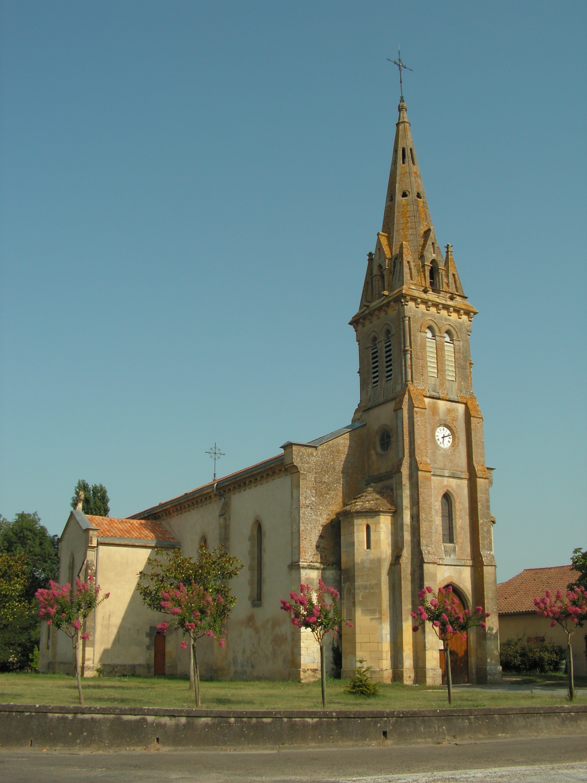 Prigonrieux